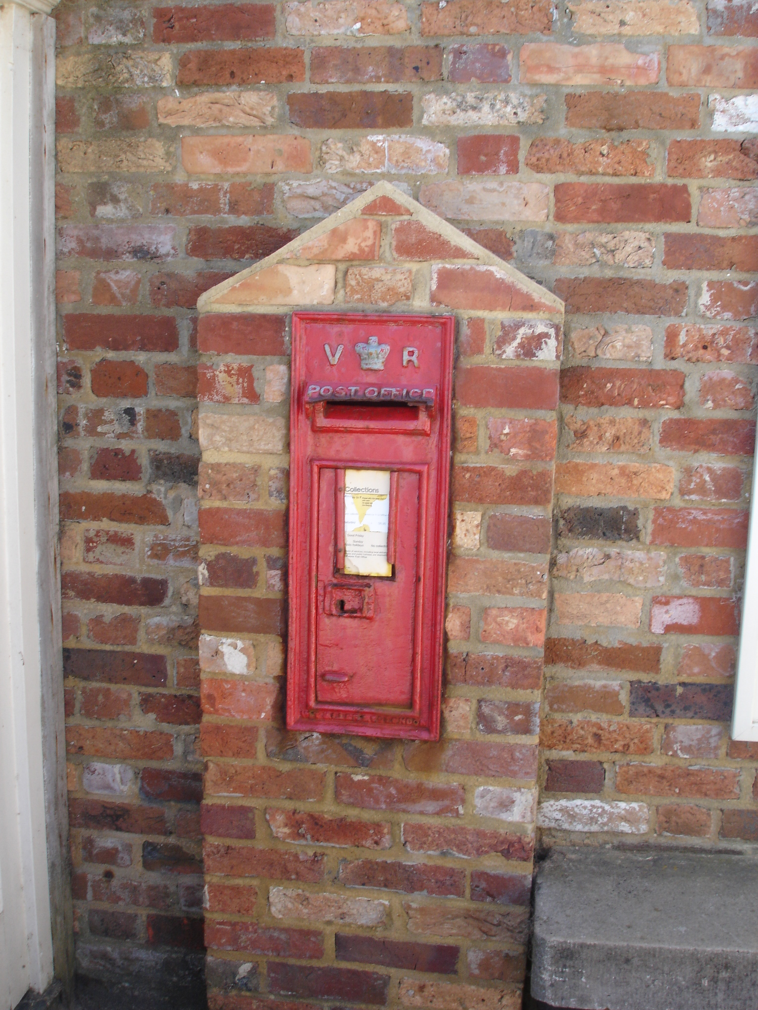 Brownsea Island Post Box